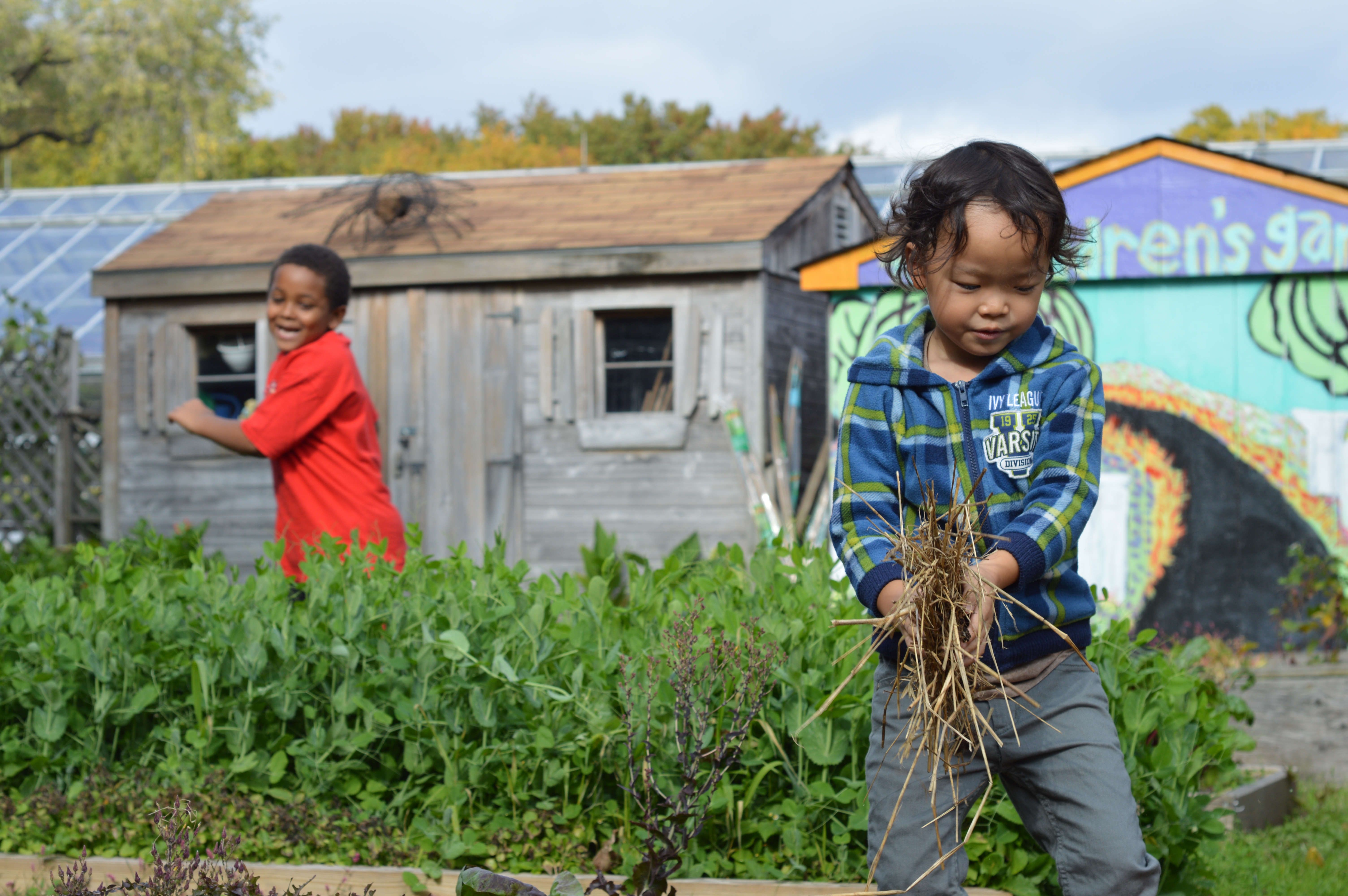 Children's Garden Sponsored by HSBC is a program at QBG geared toward children ages 4 through 10